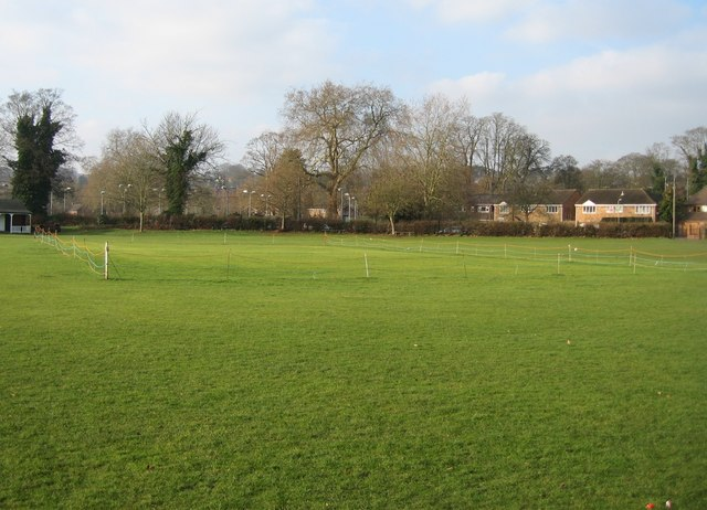 Cricket Square The houses in the background are along Pound Lane.